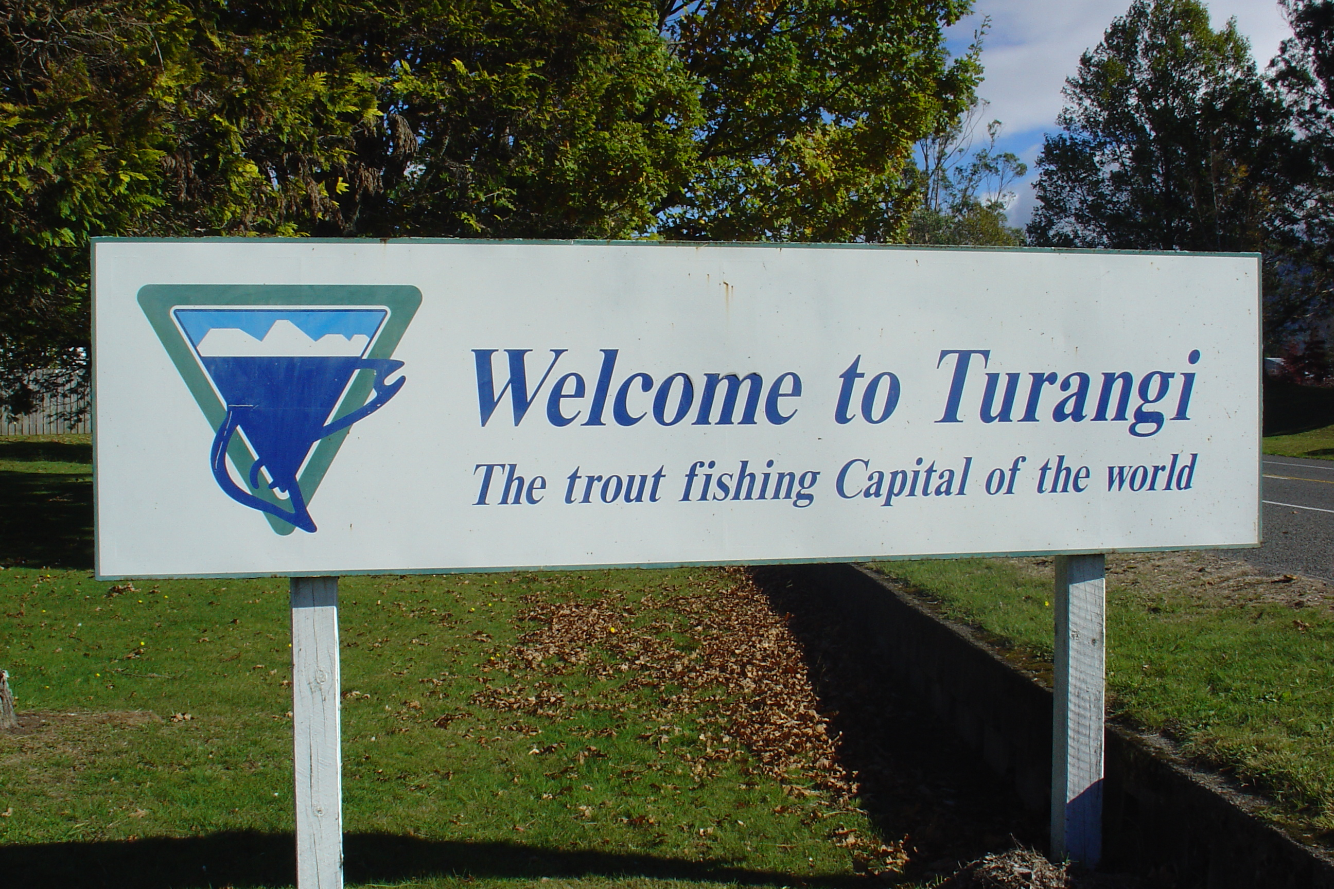 Photo from Turangi, New Zealand Turangi Welcome sign.